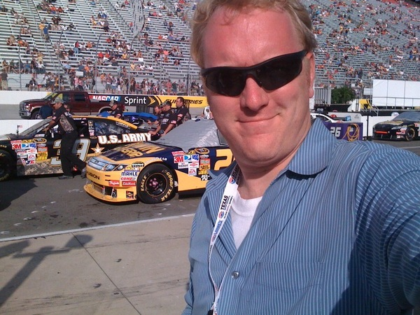 Jay Busbee at the Fall 2009 Bristol Motor Speedway Sprint Cup race. He is in front of the #26 and #39 Sprint Cup cars.